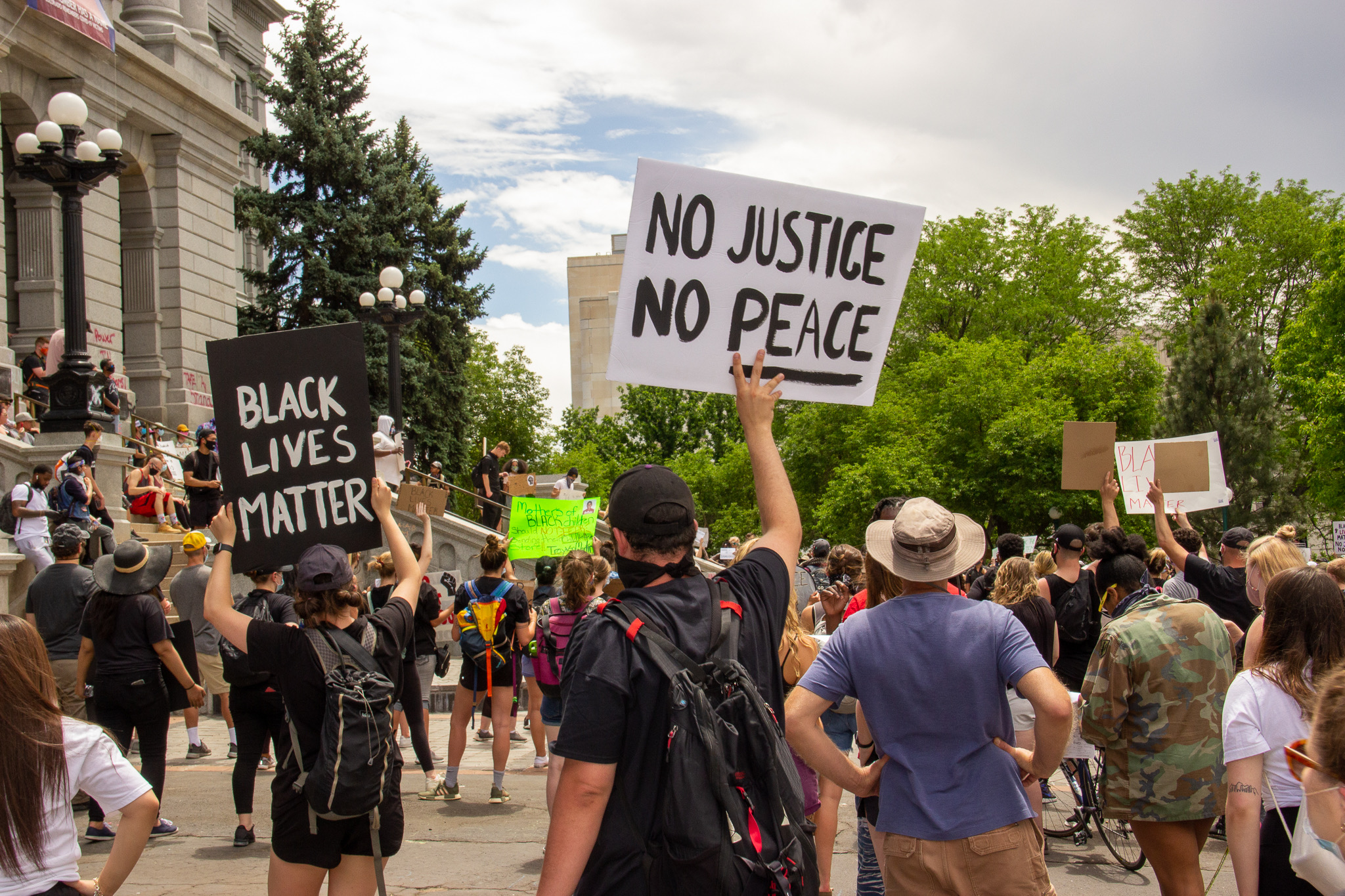 Protest